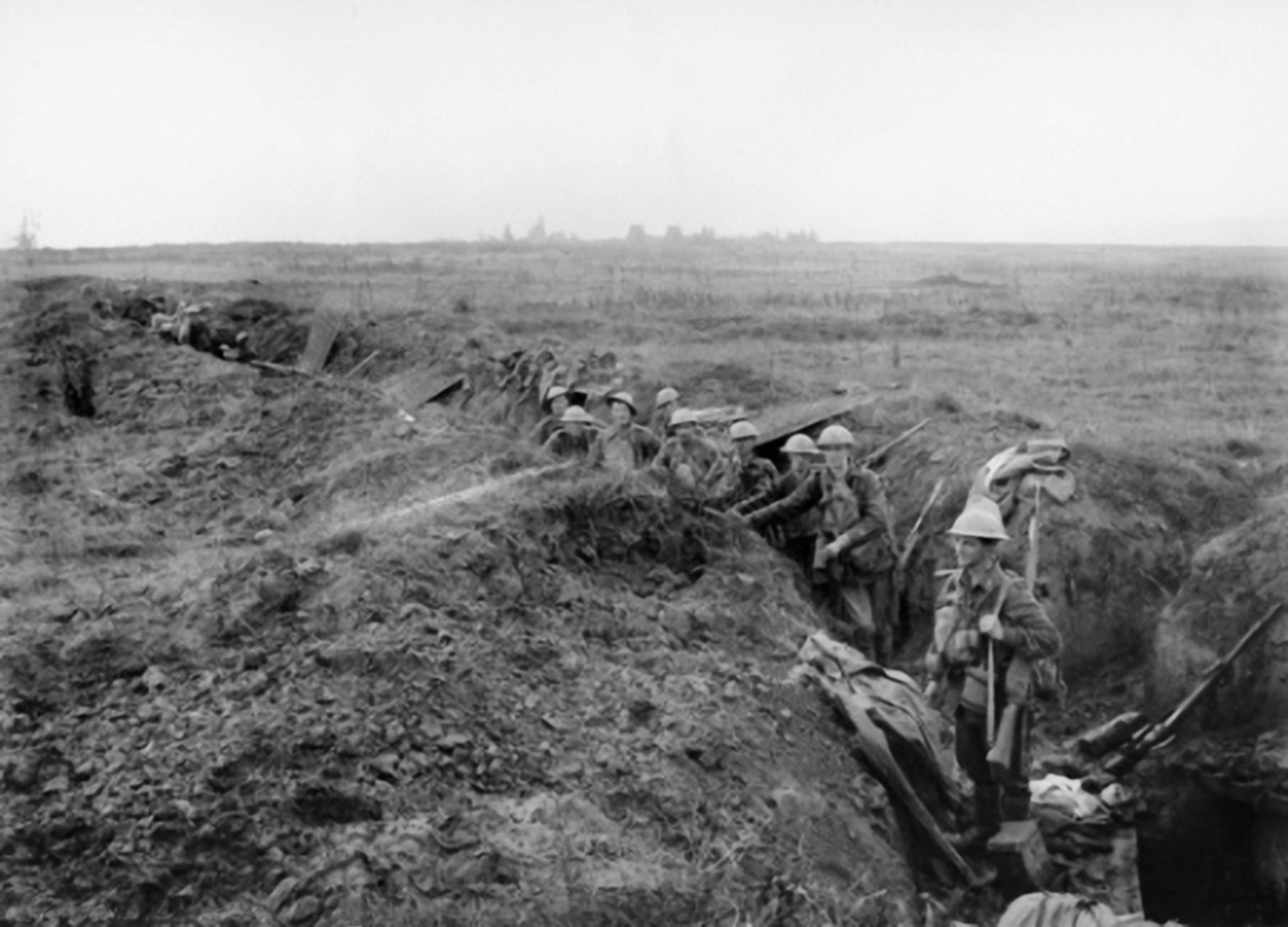 The main line of the final objective in the Australian attack on Ascension Farm and Le Verguier. This photograph, taken on the morning of the attack, shows a section of the Hindenburg outpost system in possession of 13th and 14th Battalions, who had been following in the wake of the advance in order to take over, with Battalions of the 4th Division, the front line from which the main Hindenburg line was stomed on 29 September 1918. Ascension Farm can be seen on the skyline. Identified, front to back: Private (Pte) E. E. Glenwright, 14th Battalion 7595 Pte N. McL. Young, 13th Battalion 6456 Pte S. C. Aburrow, 13th Battalion 1663 Sergeant A. E. Miller, 13th Battalion unidentified 2925 Corporal A. B. Williams MM, 13th Battalion 7556 Pte S. Reid, 14th Battalion 3606 Pte F. M. Brown, 13th Battalion 7753 Pte W. J. Strettles, 13th Battalion